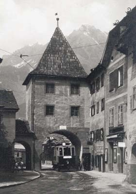 Tramway of Meran in South Tyrol, passing underneath the Vinschgauer Tor.